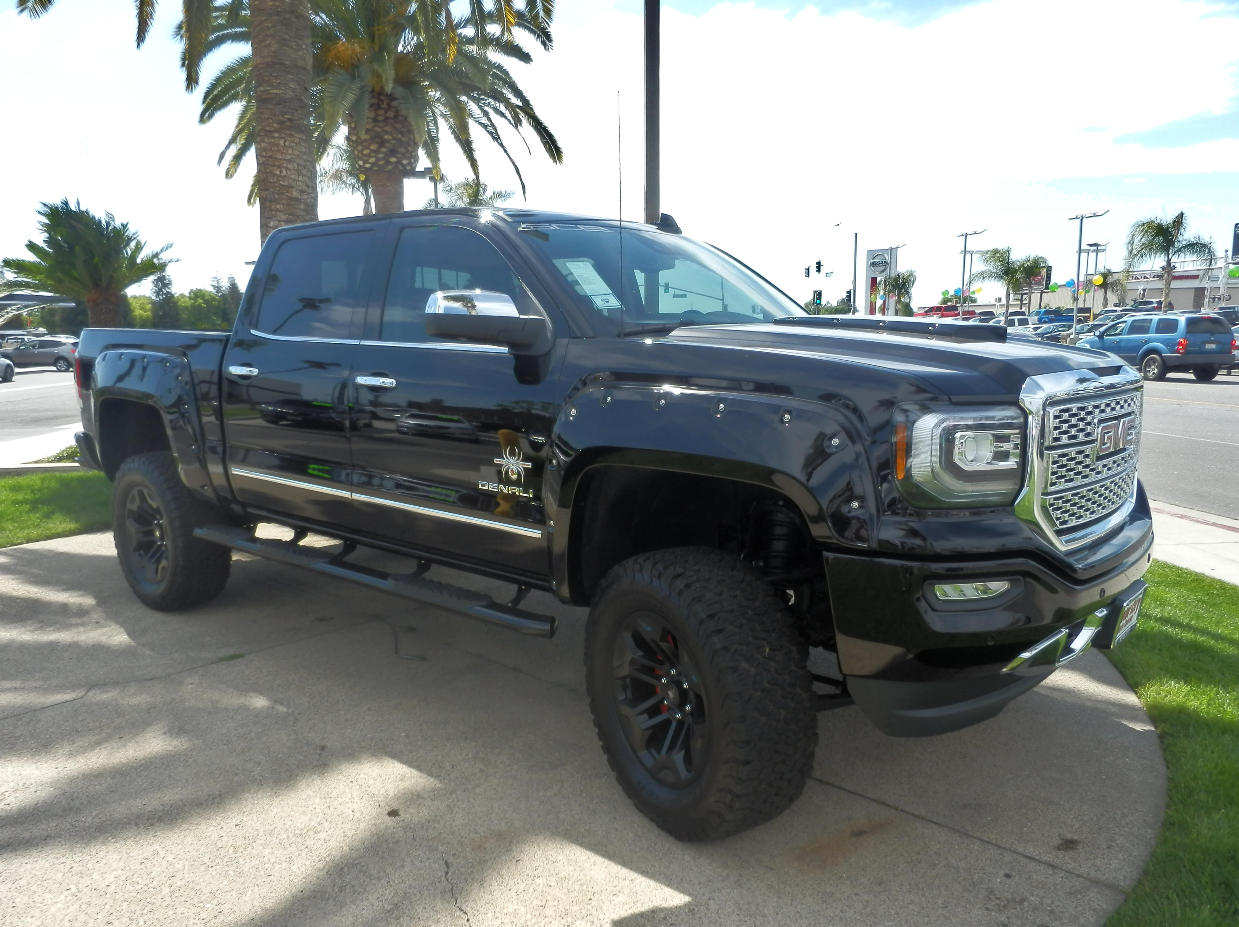 GMC Sierra Denali in Bakersfield